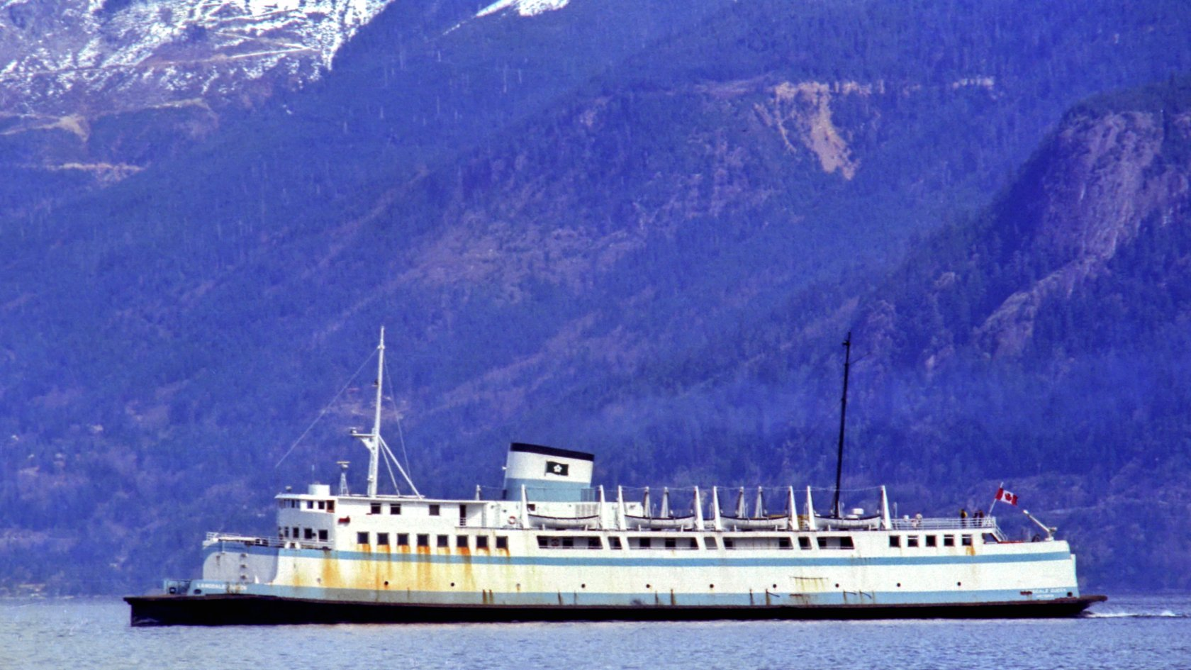 Langdale Queen in Howe Sound ~1975 [D.O. Thorne photo]